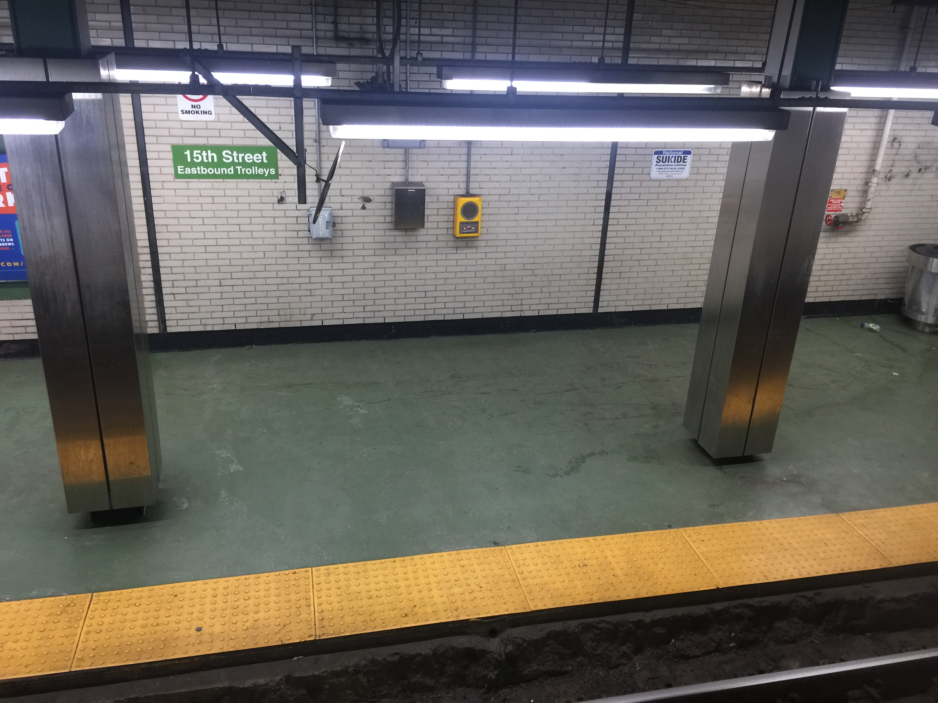 15th Street trolley view from mfl Station